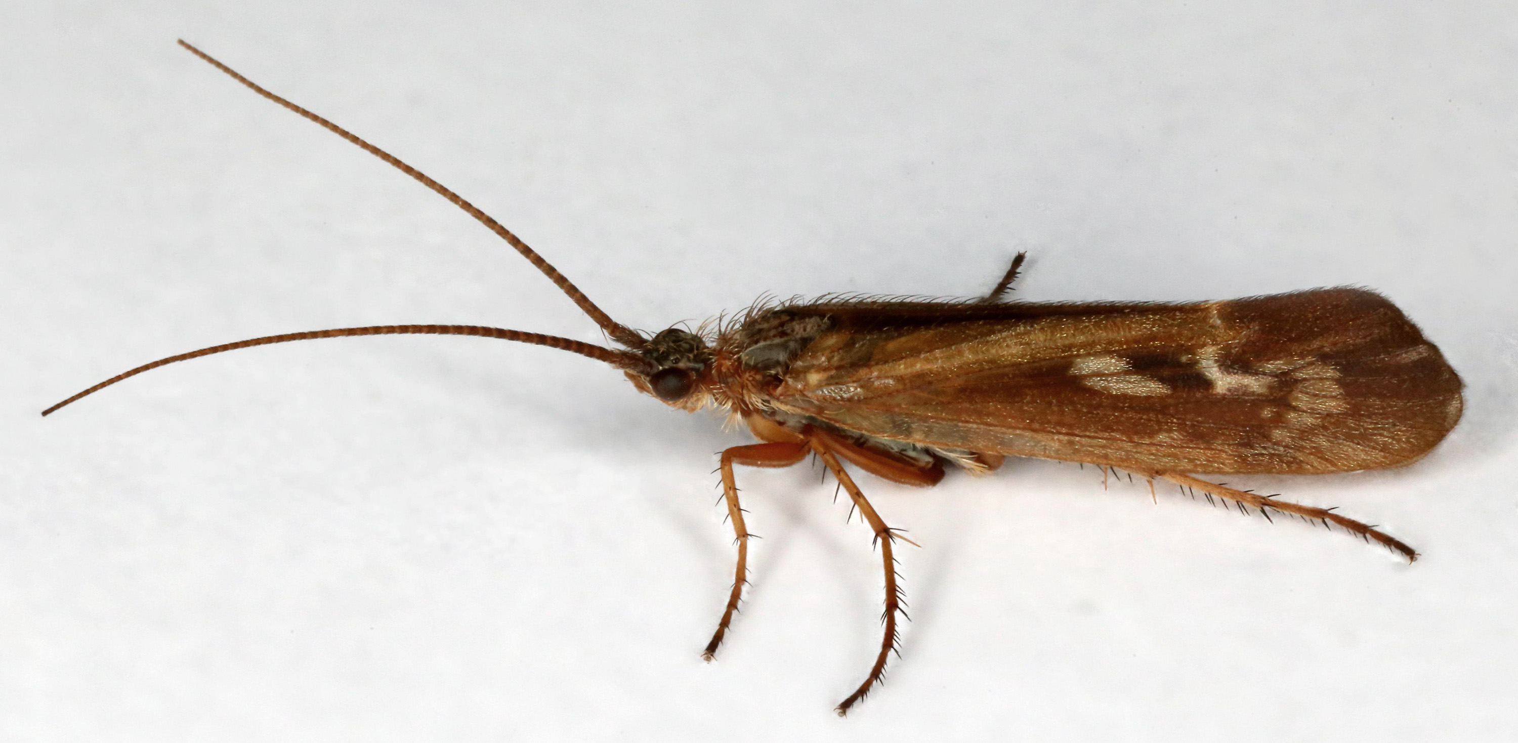 Limnephilus auricula, Fenn's Moss, North Wales, Sept 2016